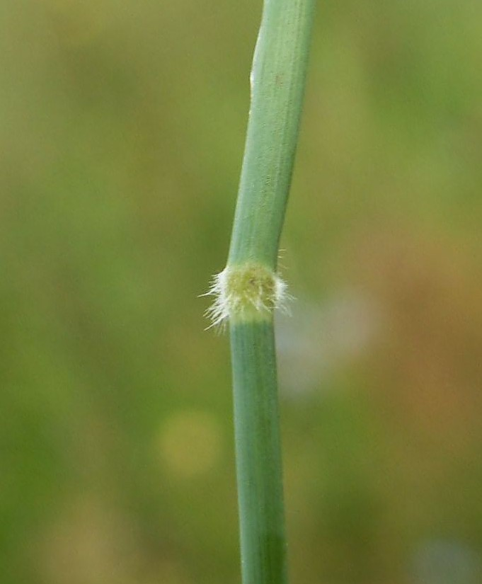 Stem of Holcus mollis, Goleniow, NW Poland